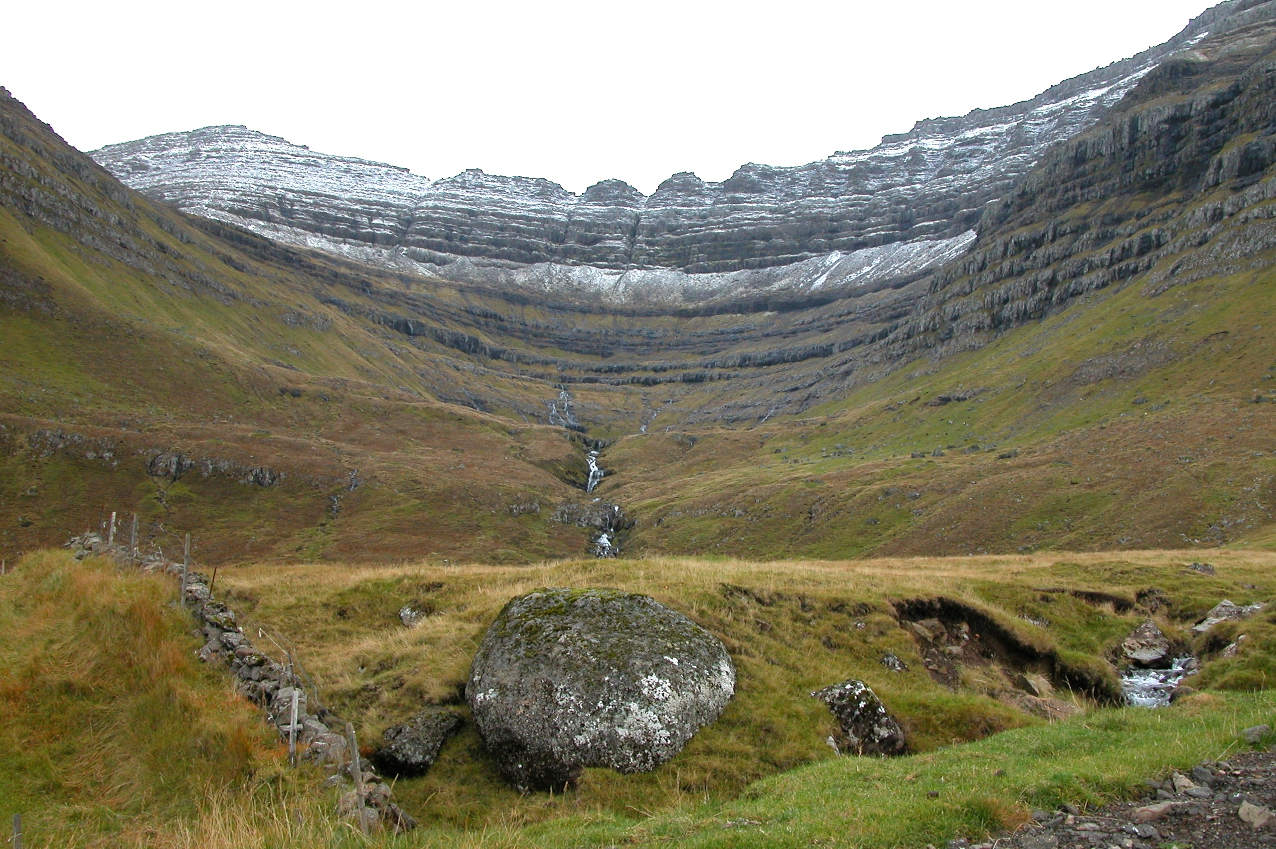 Kunoy, Faroe Islands.